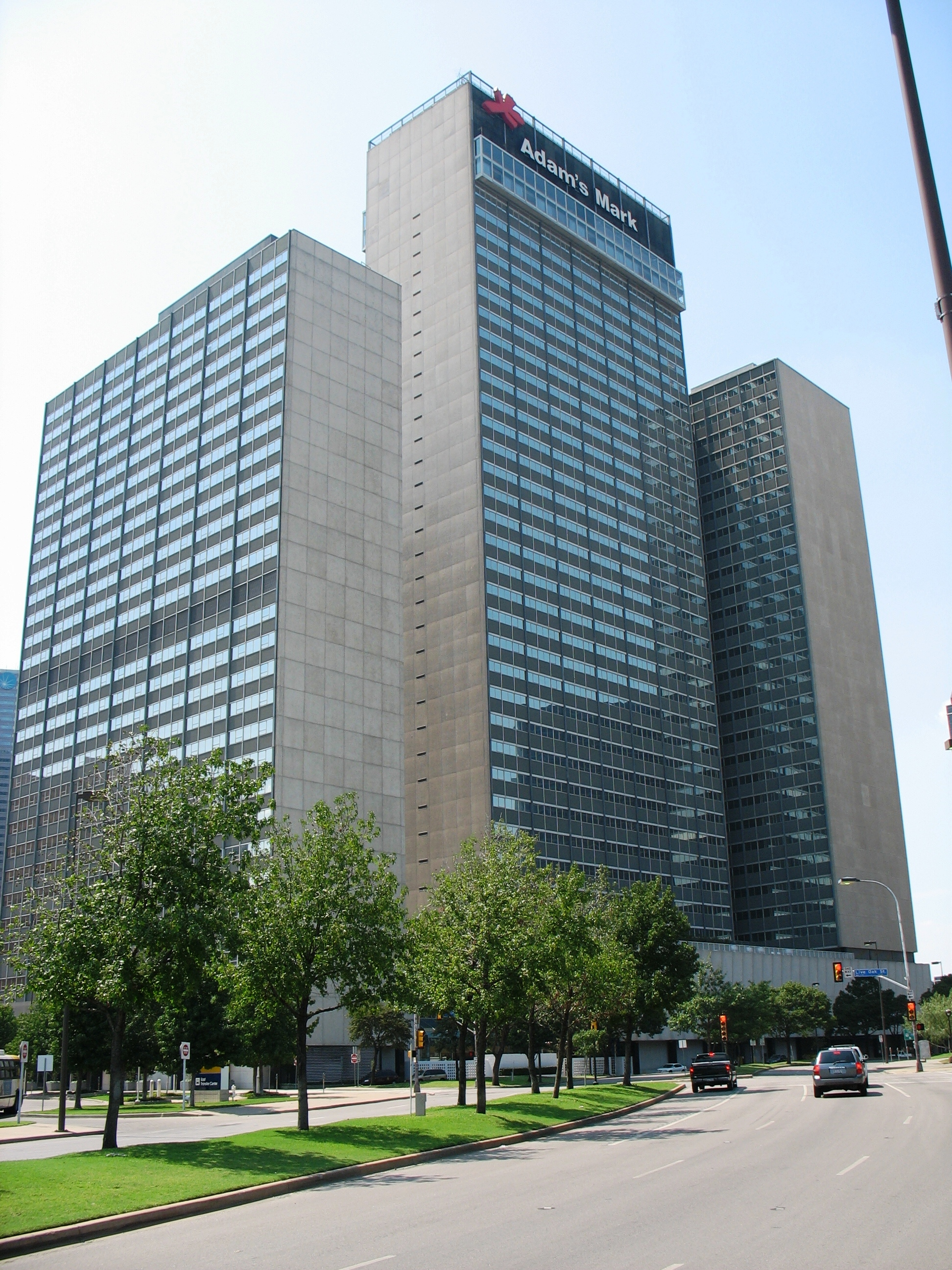 A northward view of the Adams Mark Complex (now Sheraton Dallas), from Pearl and Live Oak.